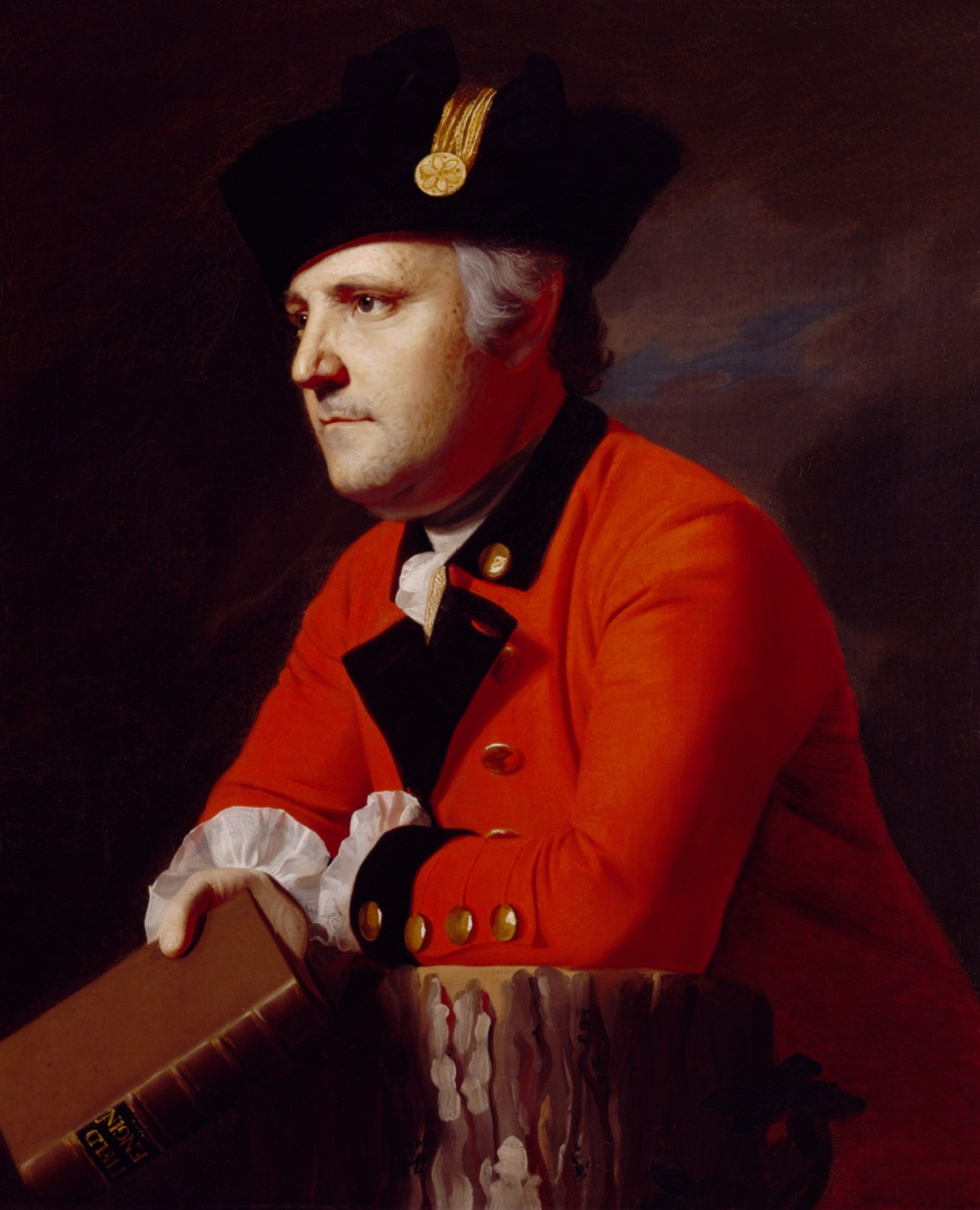 This is a oil on canvas portrait of John Montresor (1736-1799), a British military engineer. It was screen-captured in sections and stitched together, and has, as a result, been slightly cropped.